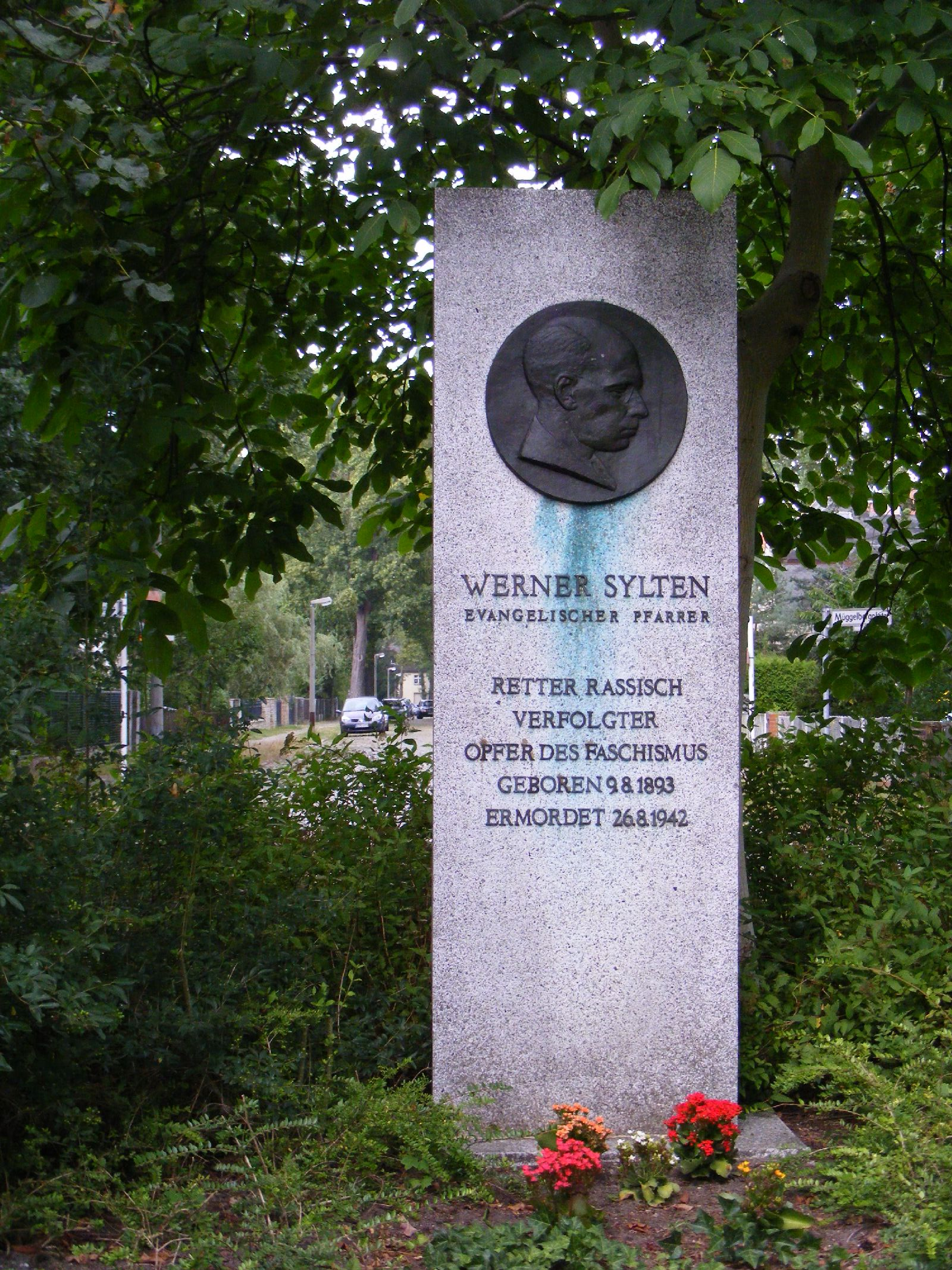 Memorial to "Pastor Werner Sylten, Murdered by the Nazis in 1942 in Schloss Hartheim, Austria. Lutheran minister born in Switzerland, he became a pastor in Bad Koestritz. After the suicide of his first wife, due to family pressure because he was a half-Jew, he moved to Berlin where he assisted non-aryan Christians. At the time of his second marriage, he lived in Wendenschloss, working under Heinrich Grüber in the Buro Grüber, later taking over this running of it when Grueber was arrested.